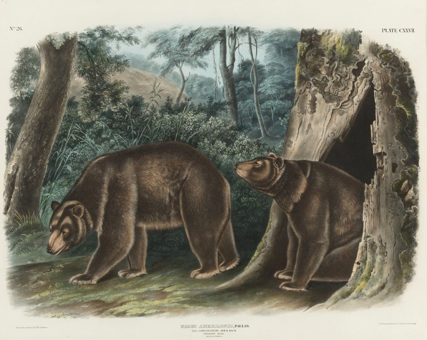 Cinnamon bear PLATE CXXVII hand-colored lithograph 1847-1848 on wove paper 555 by 700 mm